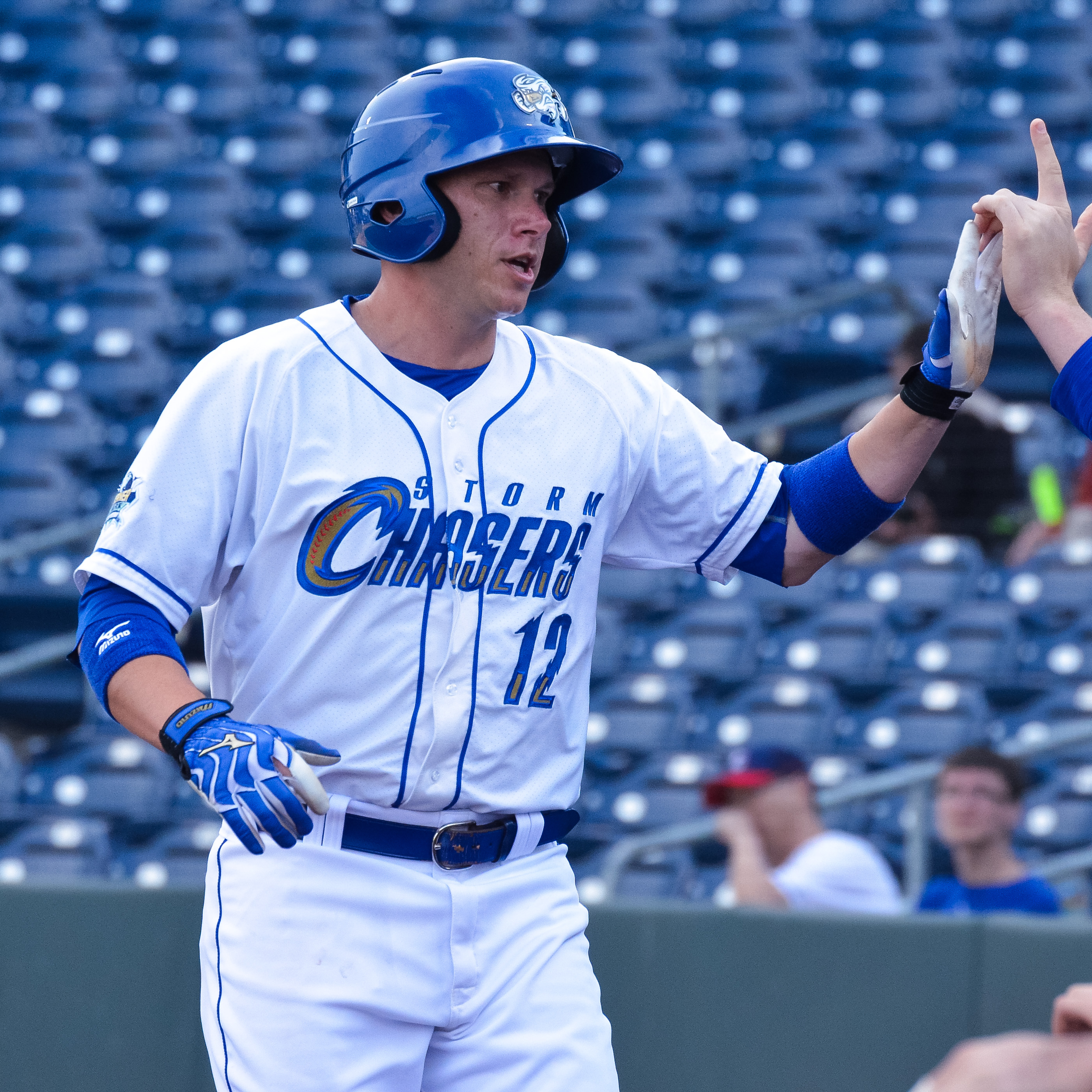 Clint Barmes